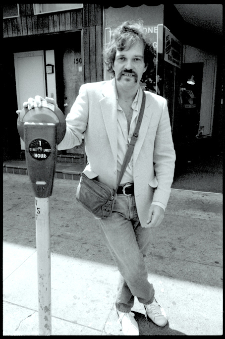 John Abercrombie, KJAZ radio, Alameda CA 8/11/81 Photo: Brian McMillen /